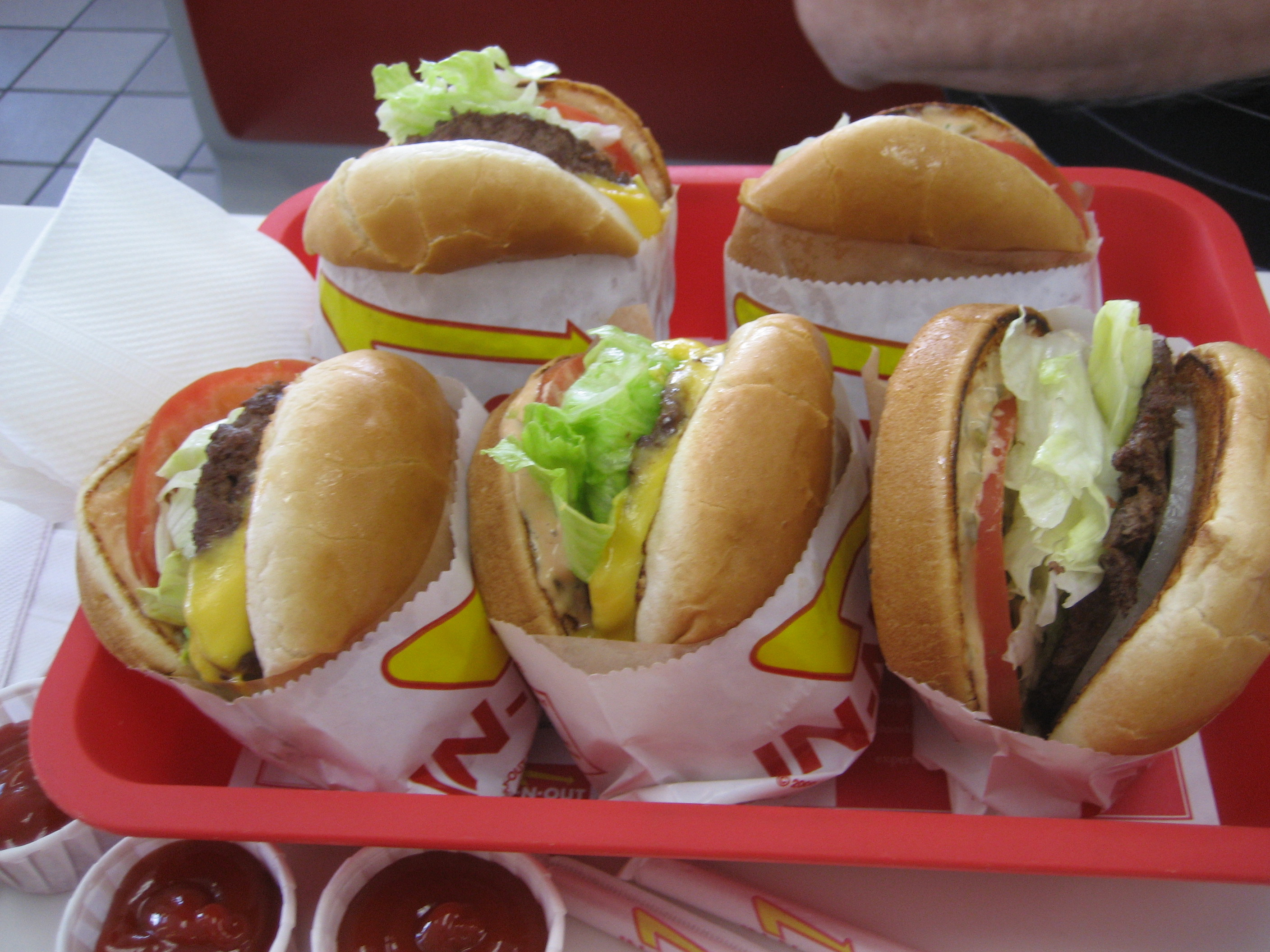 I took this photo of cheeseburgers and one hamburger at an In-n-Out in Orem, Utah.